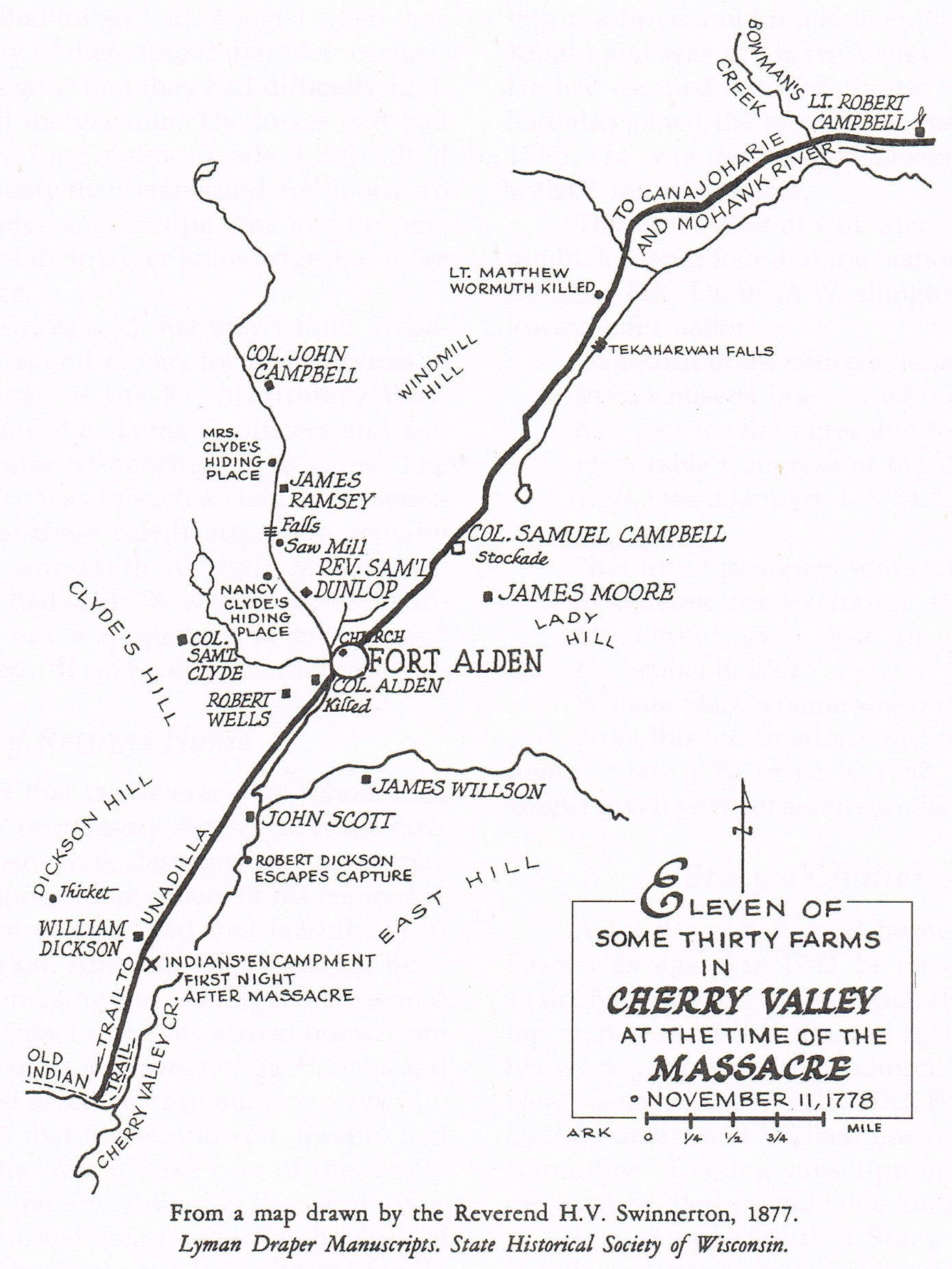 Map of Cherry Valley at the time of the massacre. From a map drawn by the Reverend H. V. Swinnerton, 1877, from the Lyman Draper Manuscripts, State Historical Society of Wisconsin, as reproduced in the book by Leo L. Lemonds: Col. William Stacy – Revolutionary War Hero, Cornhusker Press, Hastings, Nebraska (1993). ColWilliam (talk) 01:47, 2 January 2009 (UTC)